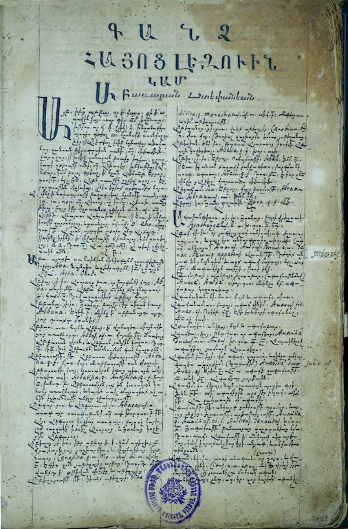 Stepanos Roshka's dictionary